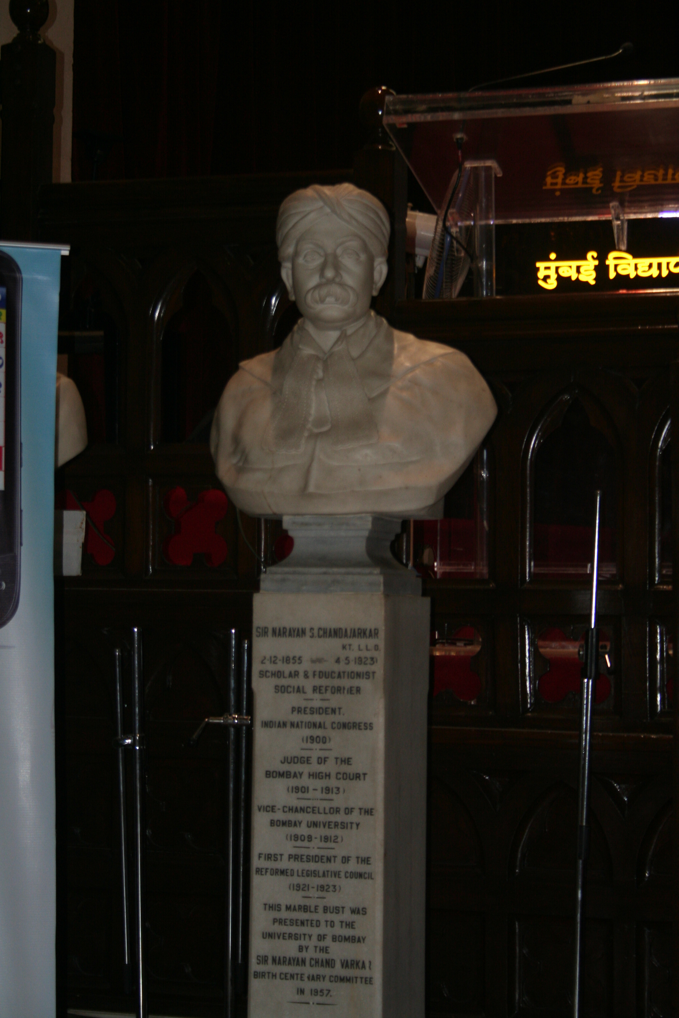 Mumbai University convocation hall photo 16